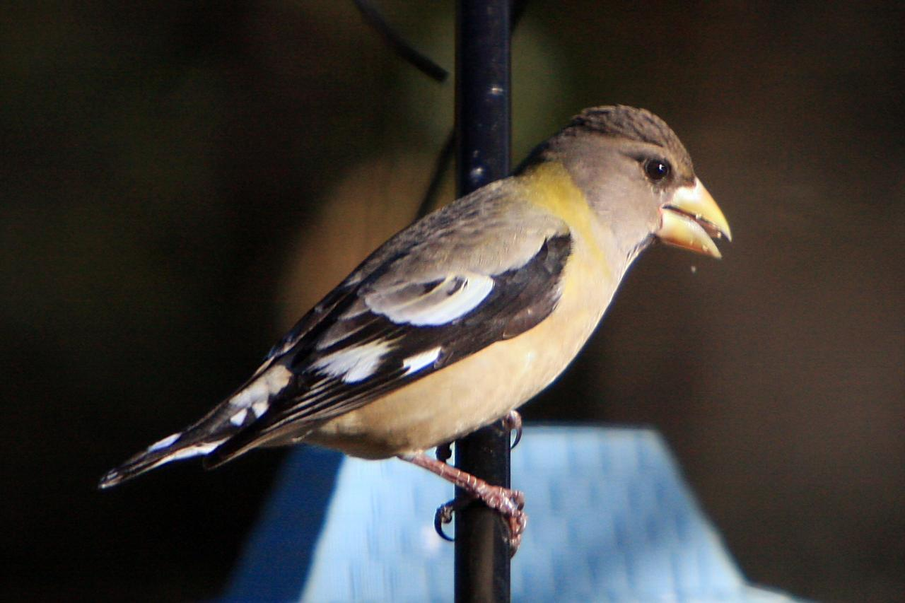 Hesperiphona vespertina female, western subspecies brooksi. Pine Mountain Lake, California.